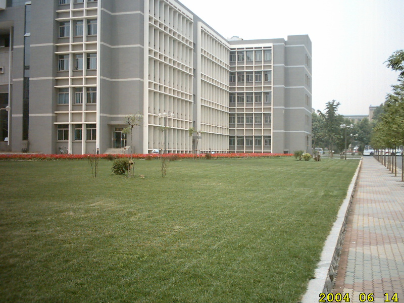 Picture of DUT library 2004 Photo taken by author / user